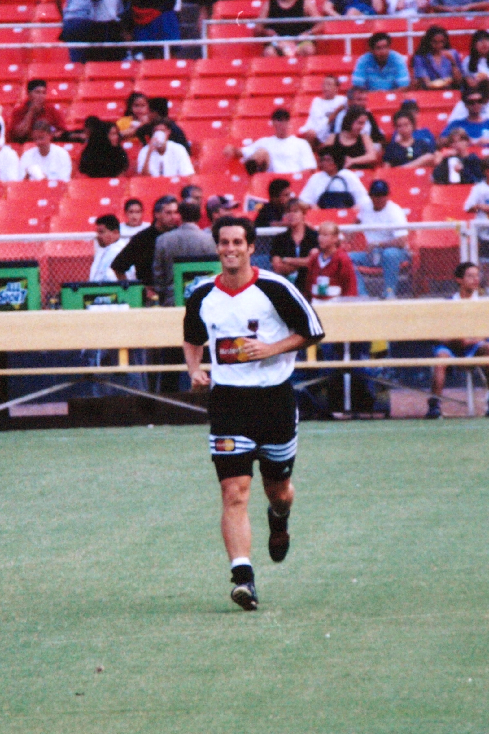 John Harkes warms up for DC United, 1997